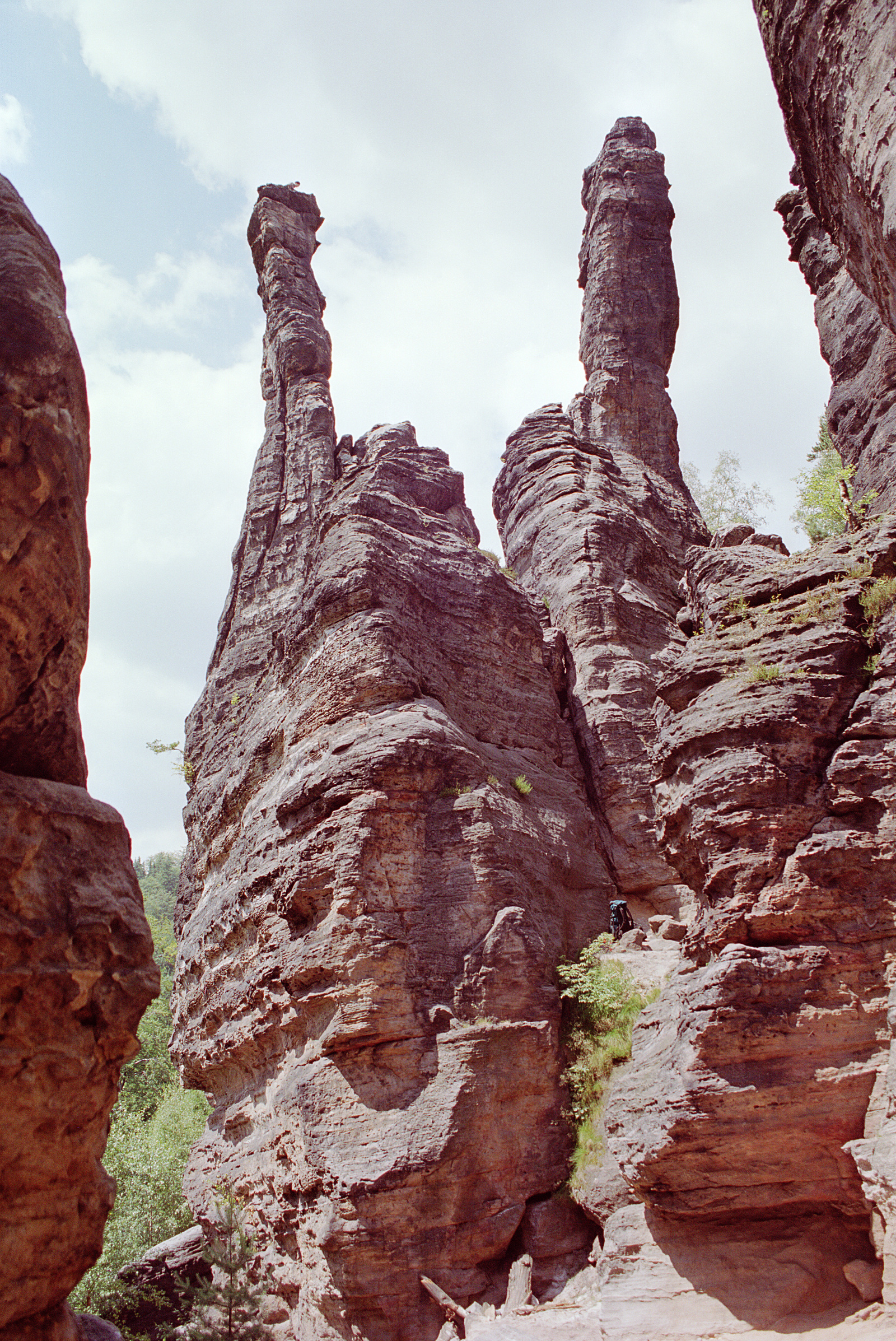 shows 2 climbing rocks in saxony swiss